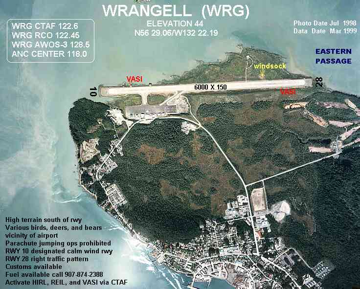 Photograph of Wrangell Airport (WRG) in Wrangell, Alaska, United States.